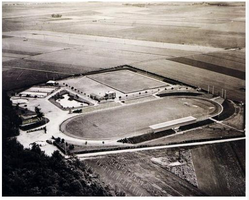 Swedish arena, Landskrona IP from 1923